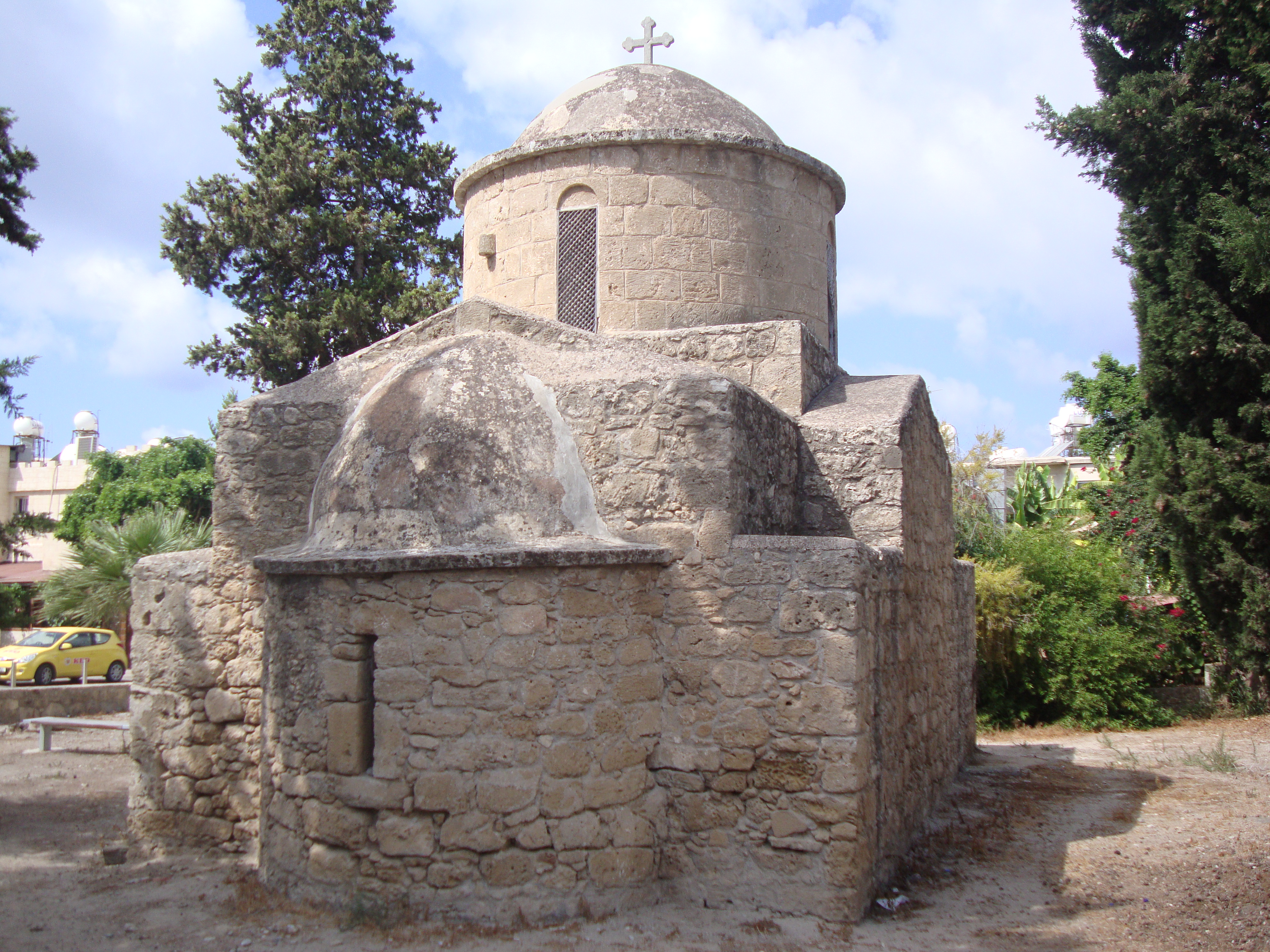 Church of St. Anthony. Paphos. 09.2013